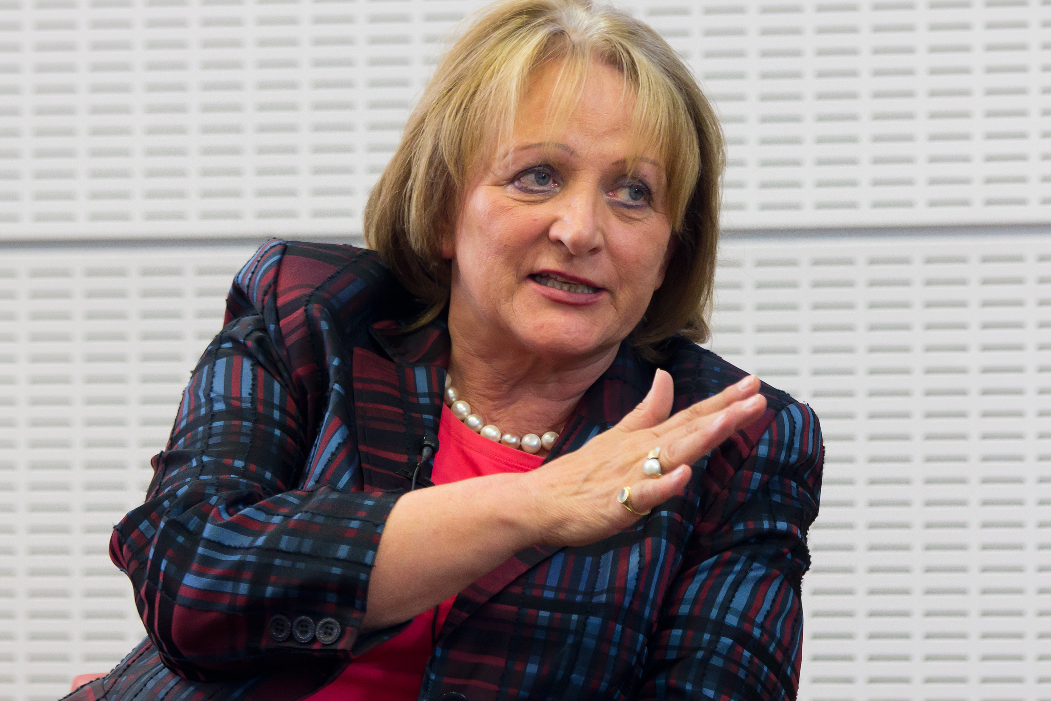 German justice secretary Sabine Leutheusser-Schnarrenberger at a Panel discussion in Berlin, August 2013